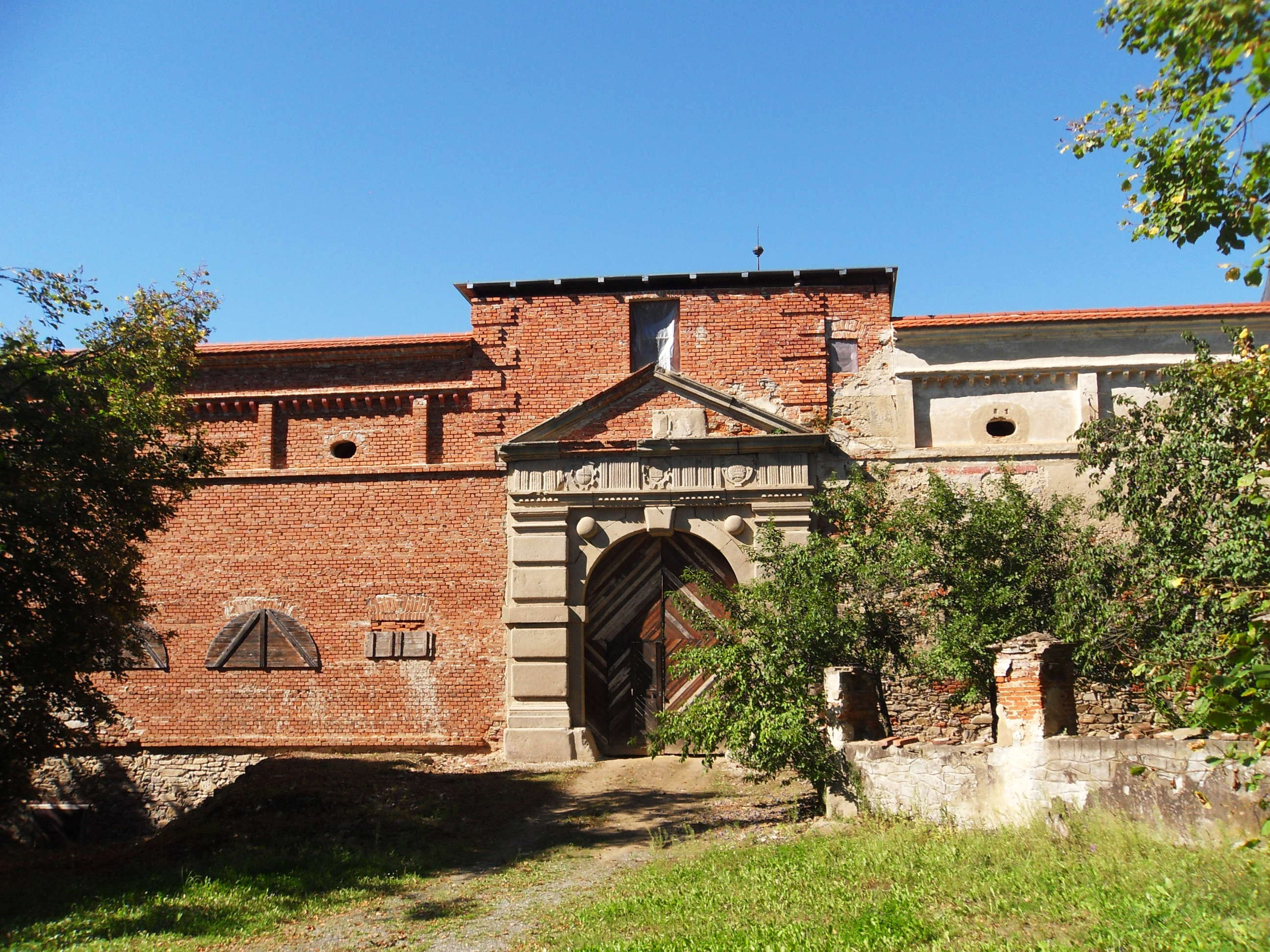 Uherčice castle, Znojmo district, Czech Republic